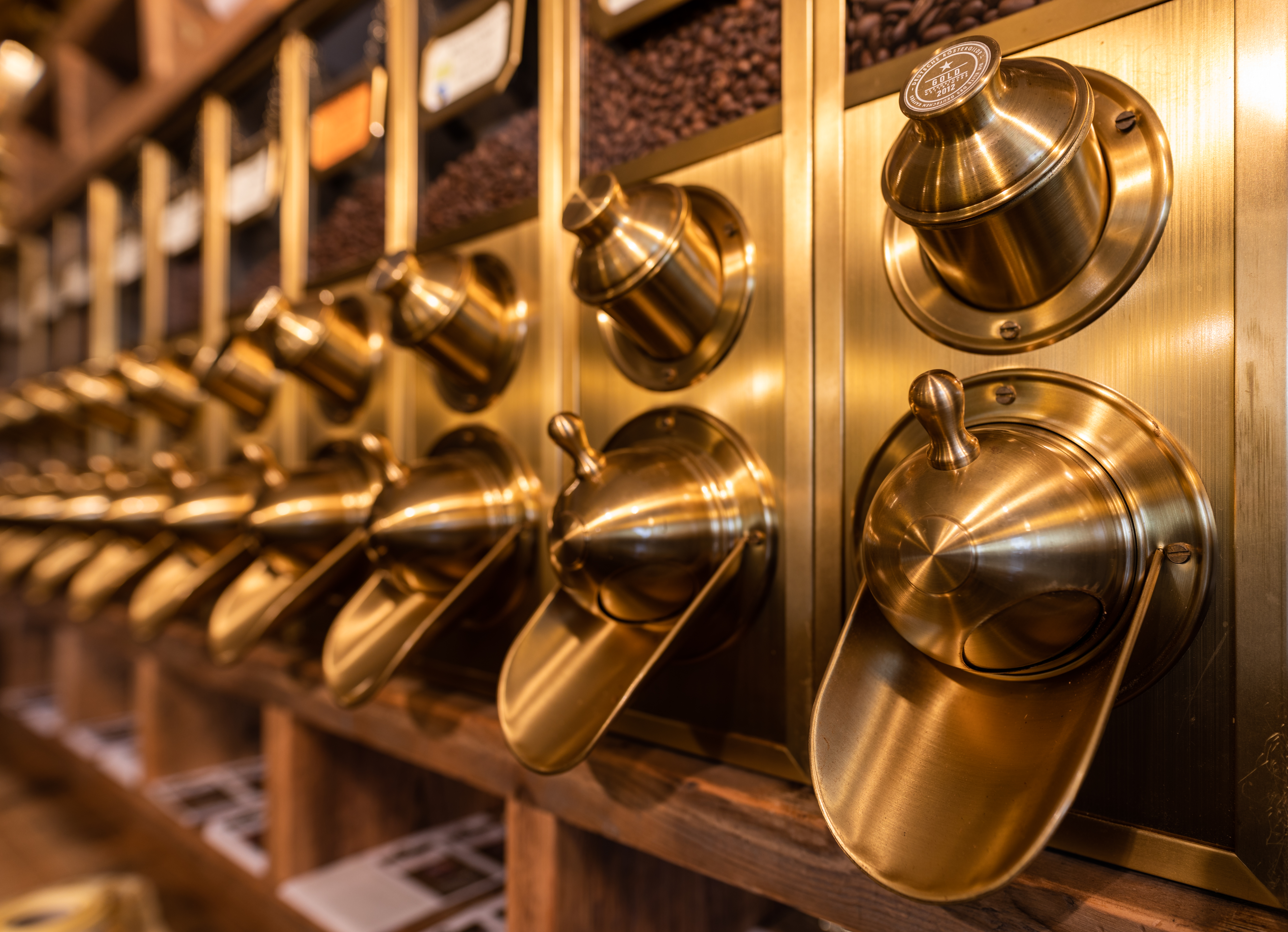 Coffee bins at Schröers Privatrösterei, Dülmen, North Rhine-Westphalia, Germany